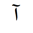 The letter madda on an alif from the Arabic alphabet, belonging to the group of harakat diacritic marks, used to represent vowels. Madda is used to replace an alif with hamza (glottal stop), followed by another alif (long /a/). The circle indicates the position of the consonant the harakat is used upon.